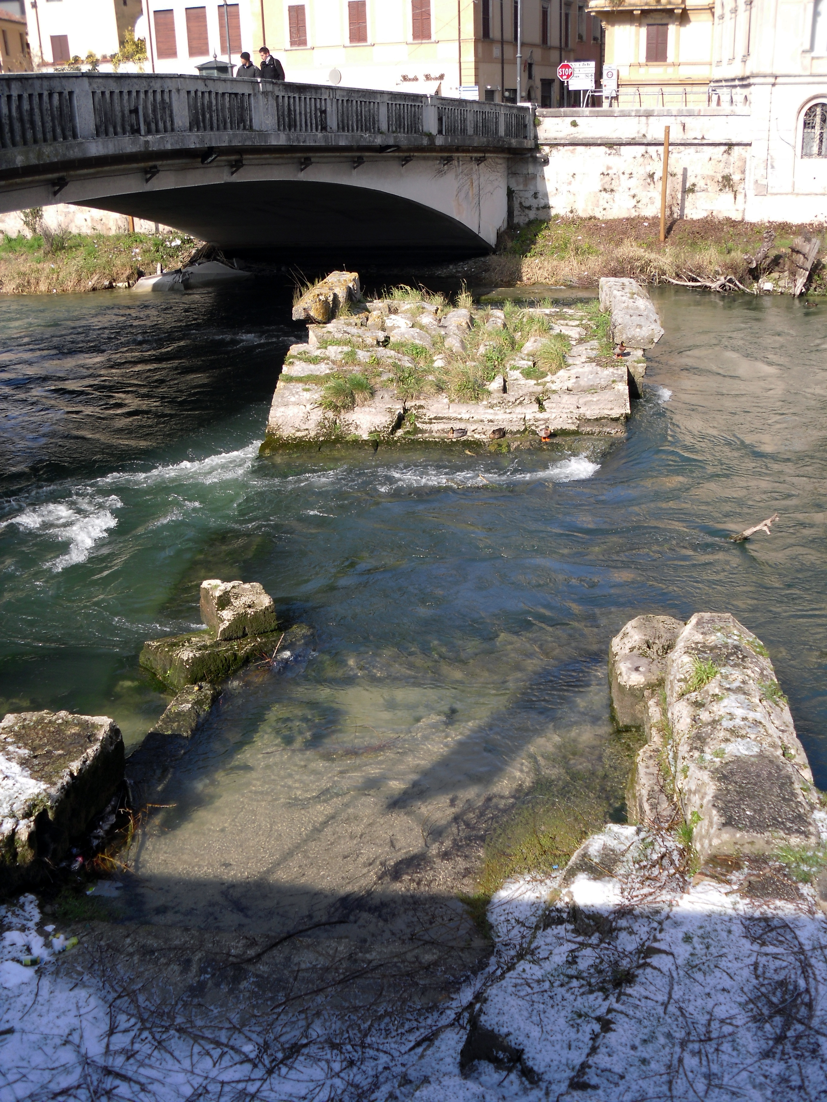 The ancient Roman bridge in Rieti and, above, the newer one.